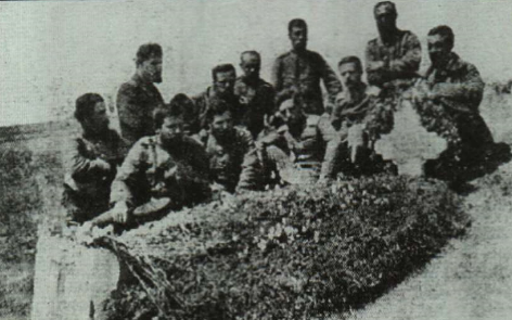 Stamen Panchev's firends next to his grave next to Kadıköy